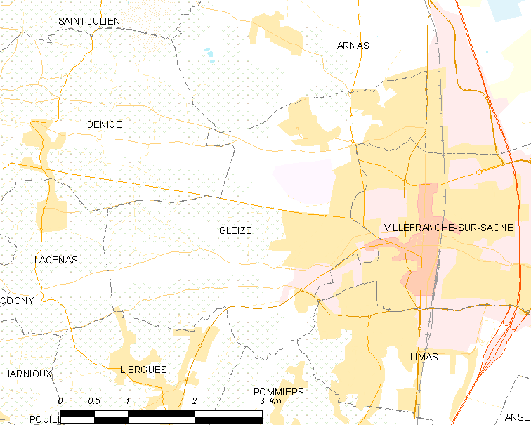 Map of French municipality